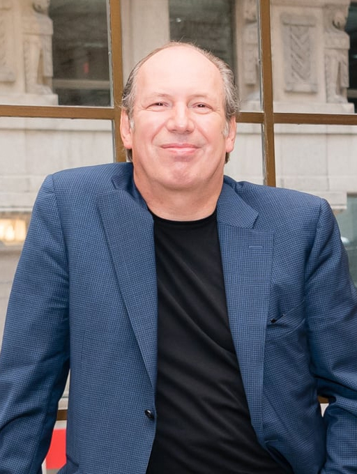 Hans Zimmer on 'Widows', 'Dark Phoenix' and 'Wonder Woman 2'